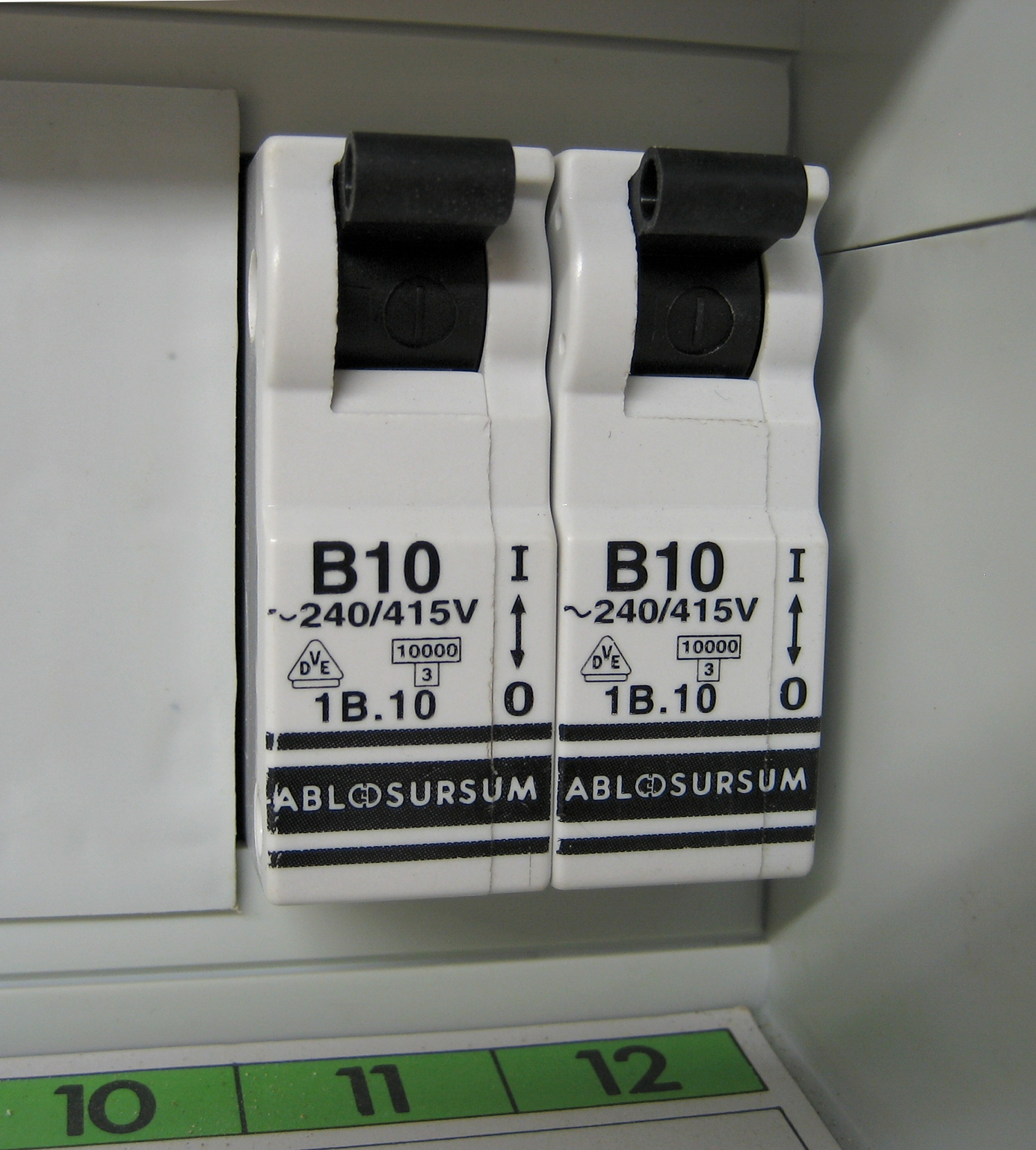 Circuit breaker, 10 amps